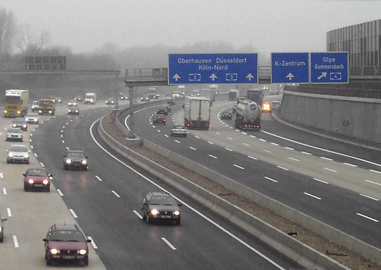 Signposting of a German Motorway junction which is also a European highway junction.